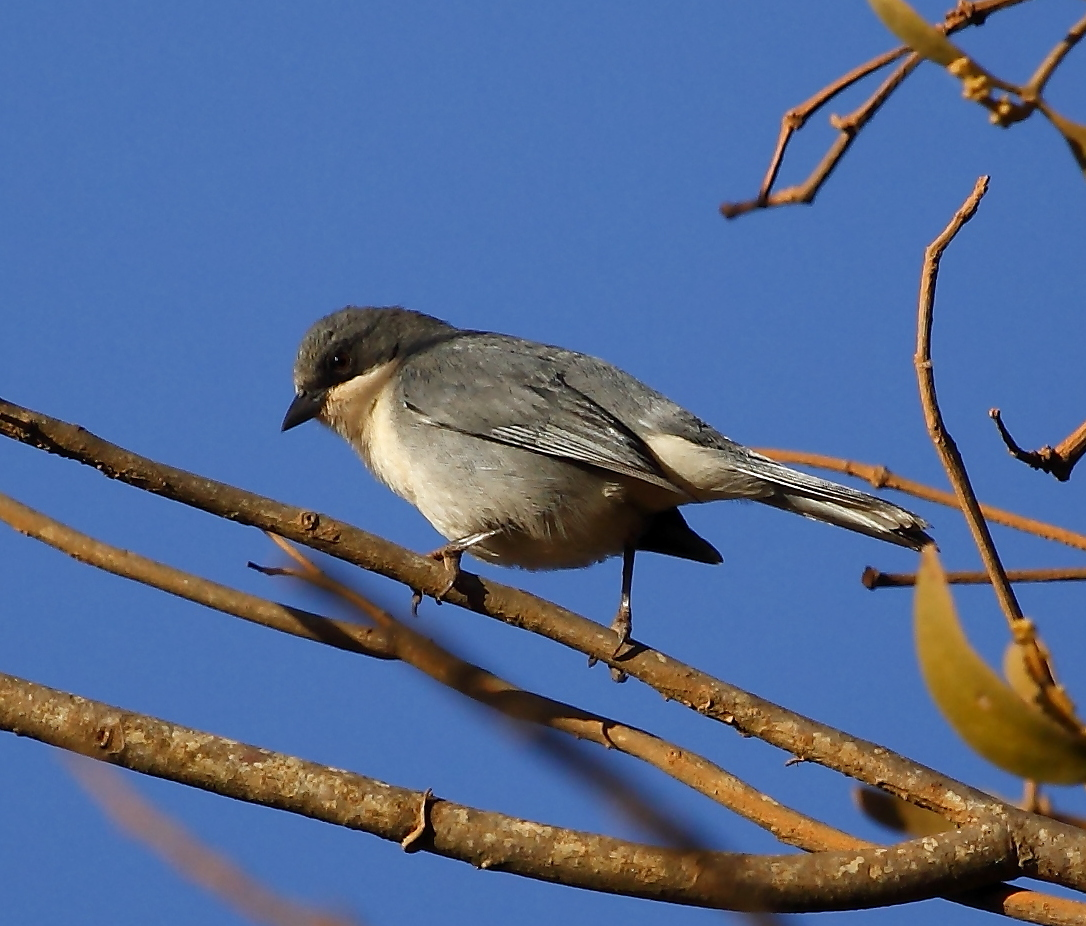 Cinereous warbling-finch at São Roque de Minas - MG - Brazil